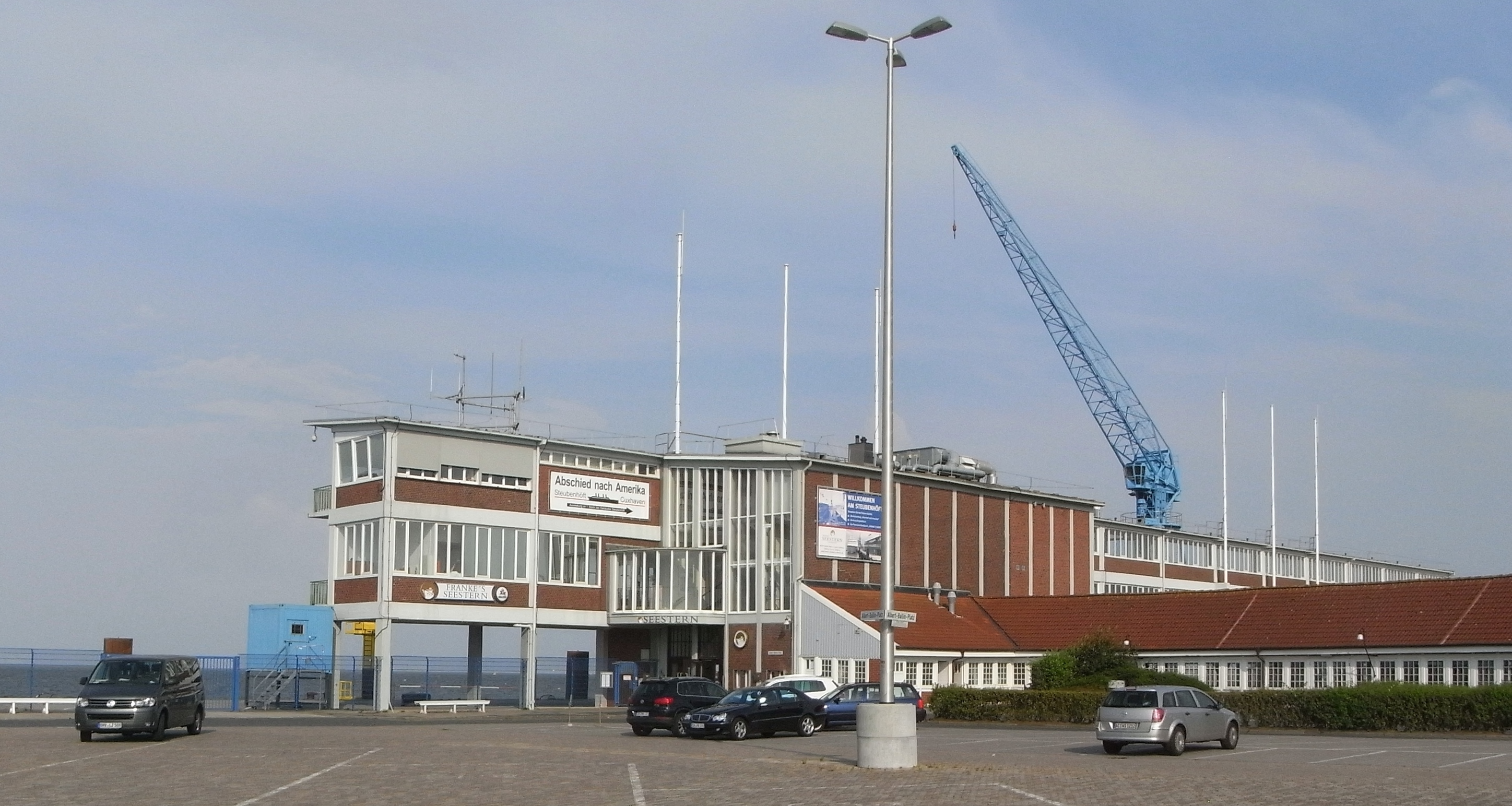 Albert-Ballin-Platz and Steubenhöft terminal in Cuxhaven, Lower Saxony, Germany